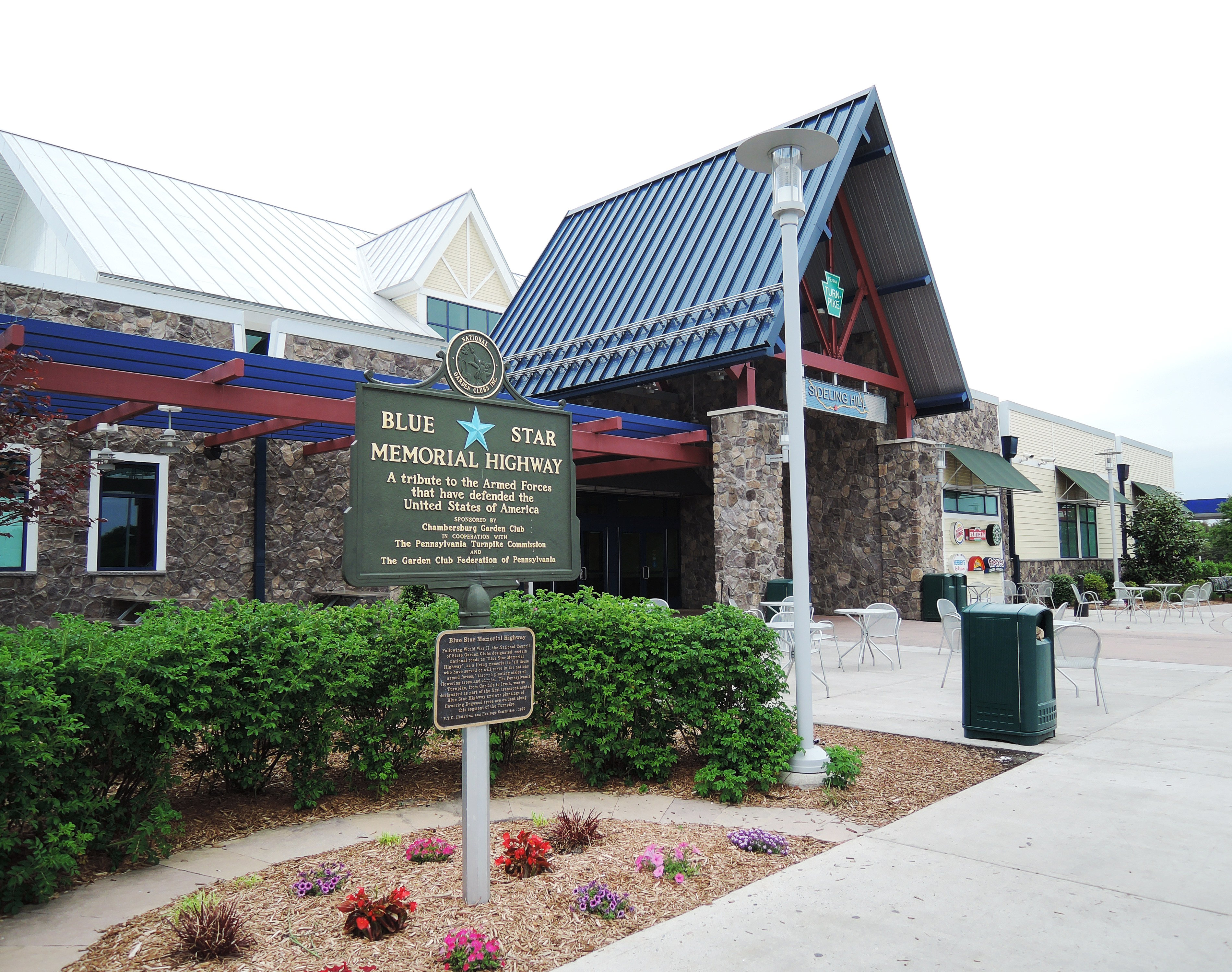 Looking north at signs for Blue Star Highway on a cloudy day.